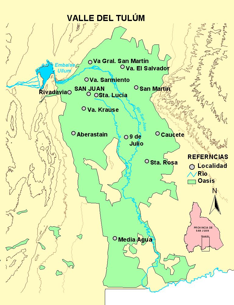 Maps of Tulum Valley, San Juan Province, Argentina